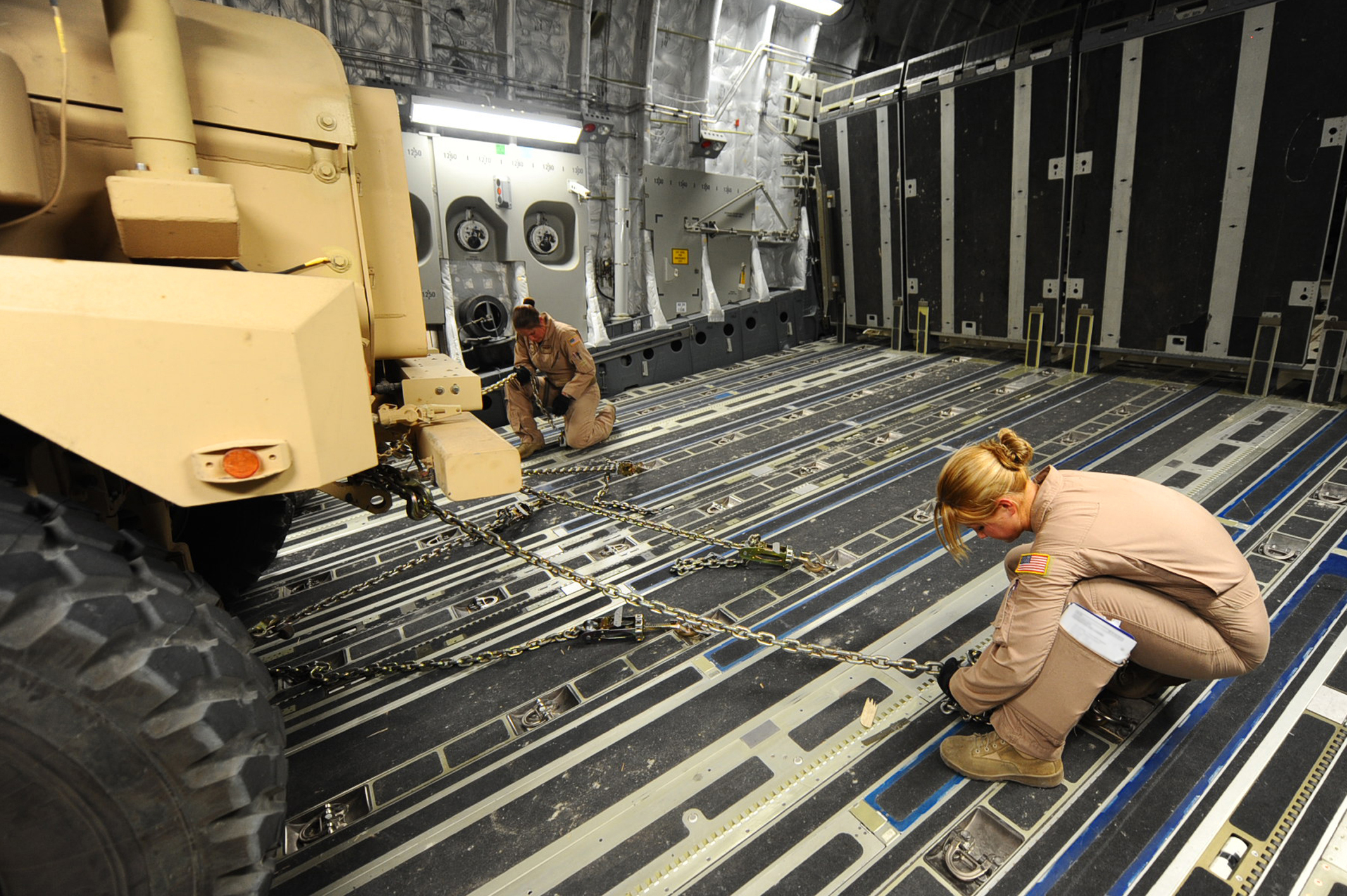 Senior Airmen Christine Collier (left) and Spencer Keeley (right), both 816th Expeditionary Airlift Squadron loadmasters, secure a Mine Resistant Ambush Protected vehicle in a C-17 Globemaster III at a non-disclosed Southwest Asia location, March 10. Collier and Keeley were part of an all-female crew in honor of Women's History Month.